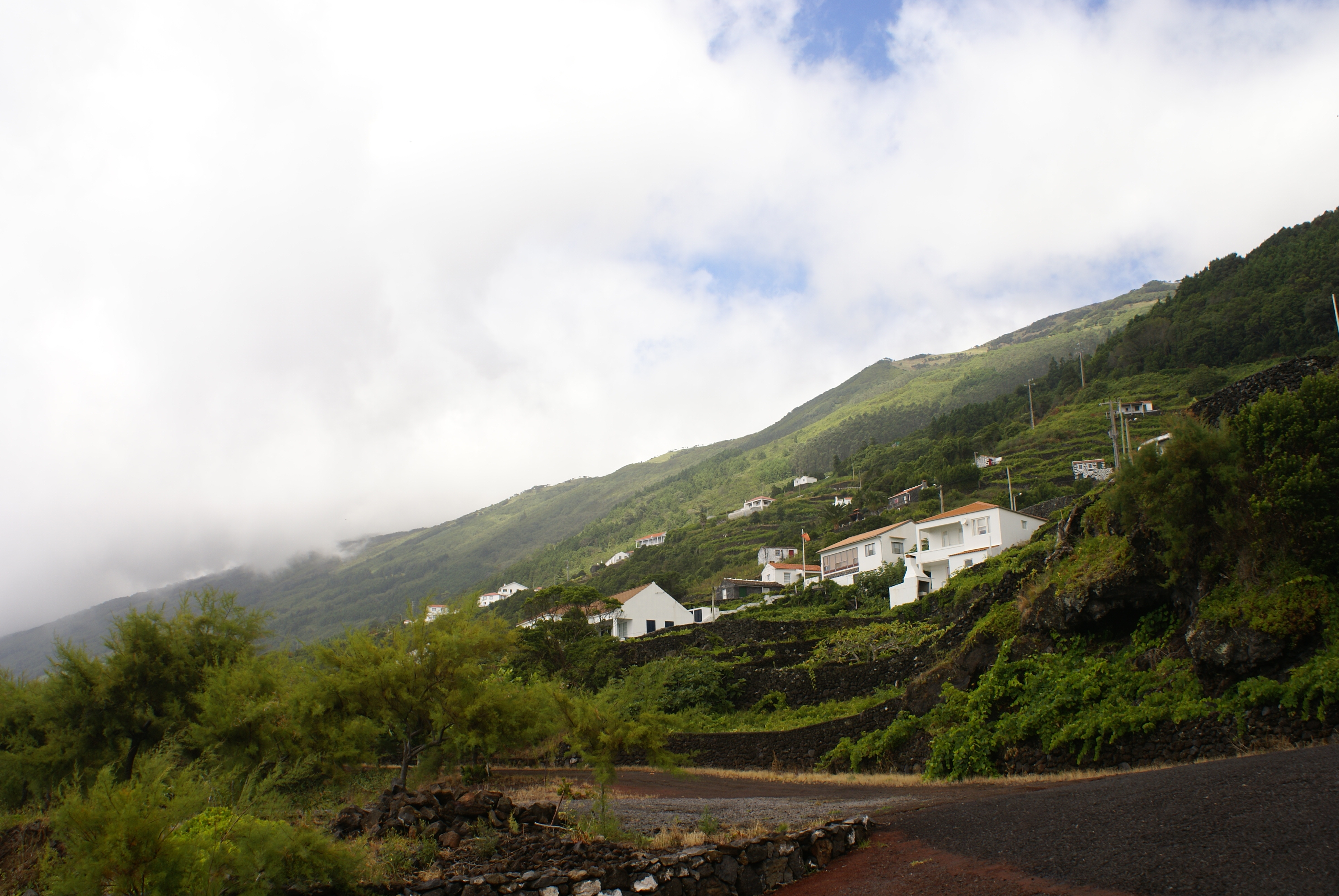 Ribeira Seca, Ribeiras, Lajes do Pico, ilha do Pico, Açores